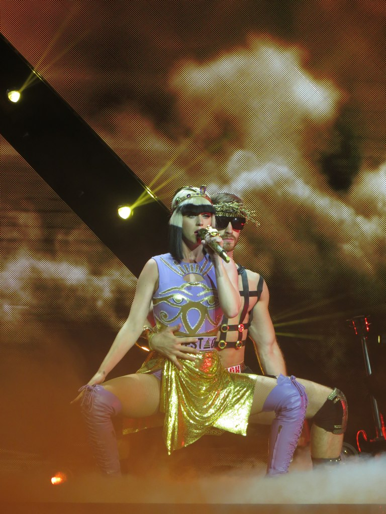 Katy Perry performing "Legendary Lovers" at SEE Hydro in Glasgow in May 17, 2014.